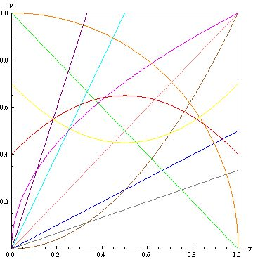 Created in Mathematica 6 solely and entirely by EnumaElish (the author/artist/designer of the image) to be used in Wikipedia article(s).